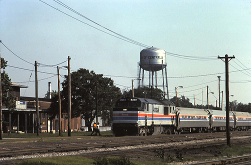 The Shawnee at Centralia station in June 1978